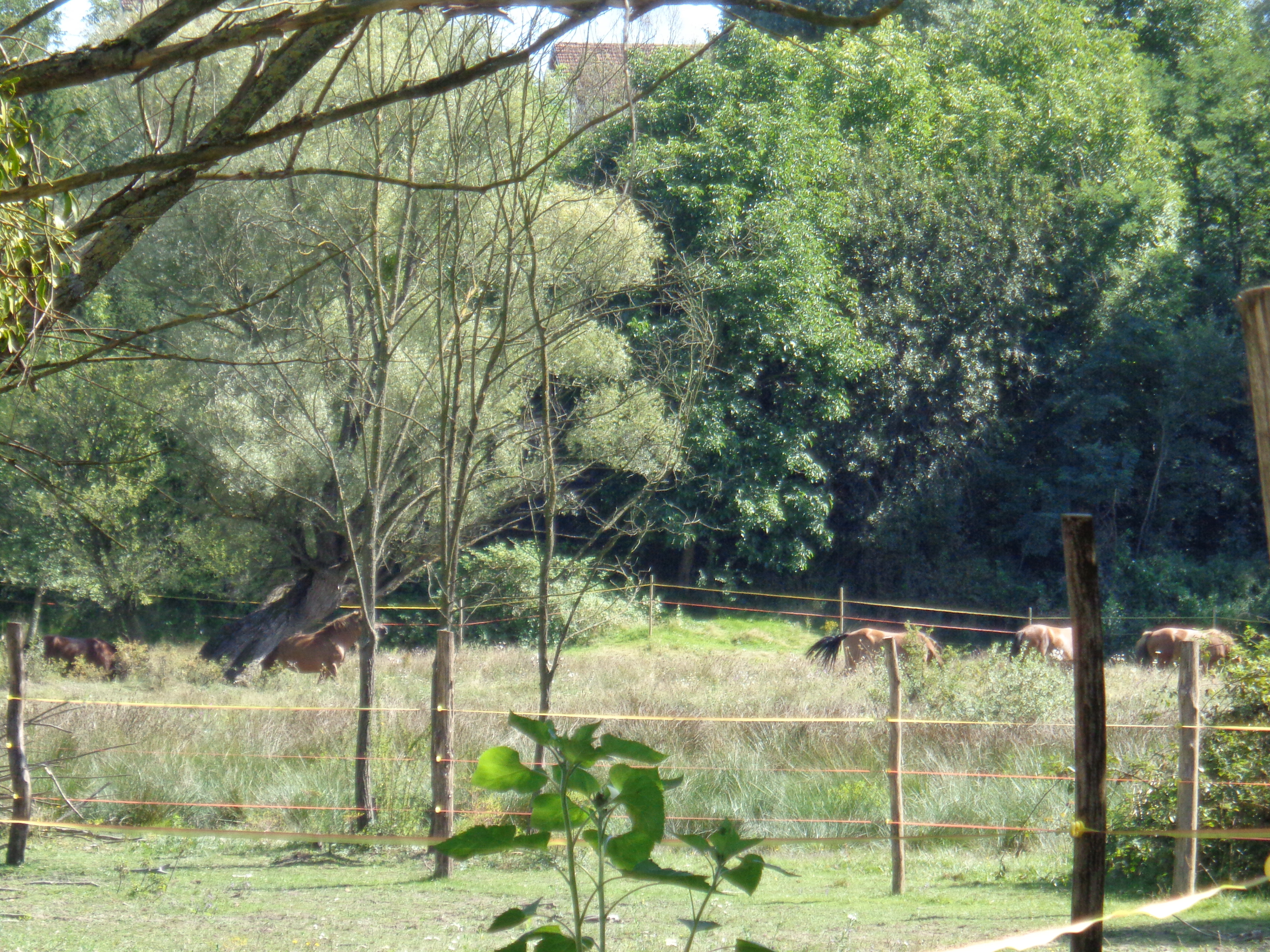 Ergela međimurskog konja = Medjimurie horse stud farm in Žabnik, Medjimurje County, northern Croatia - horses grazing on common pasture